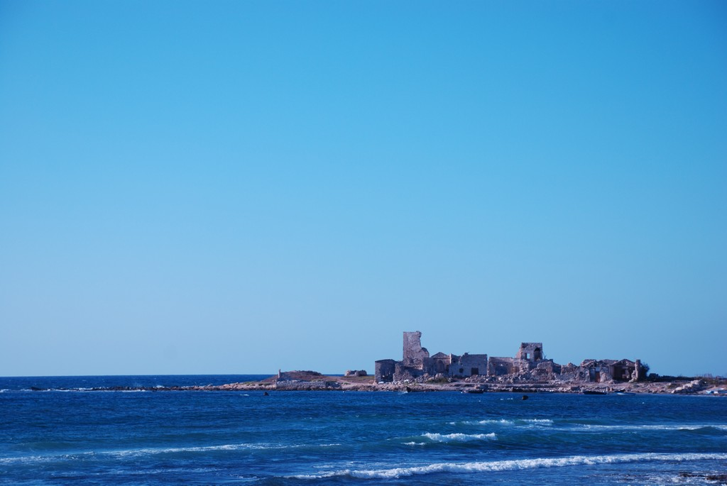 Ruins of a tuna fish factory near the sea at Trapani (Tonnara San Giuliano-Palazzo).